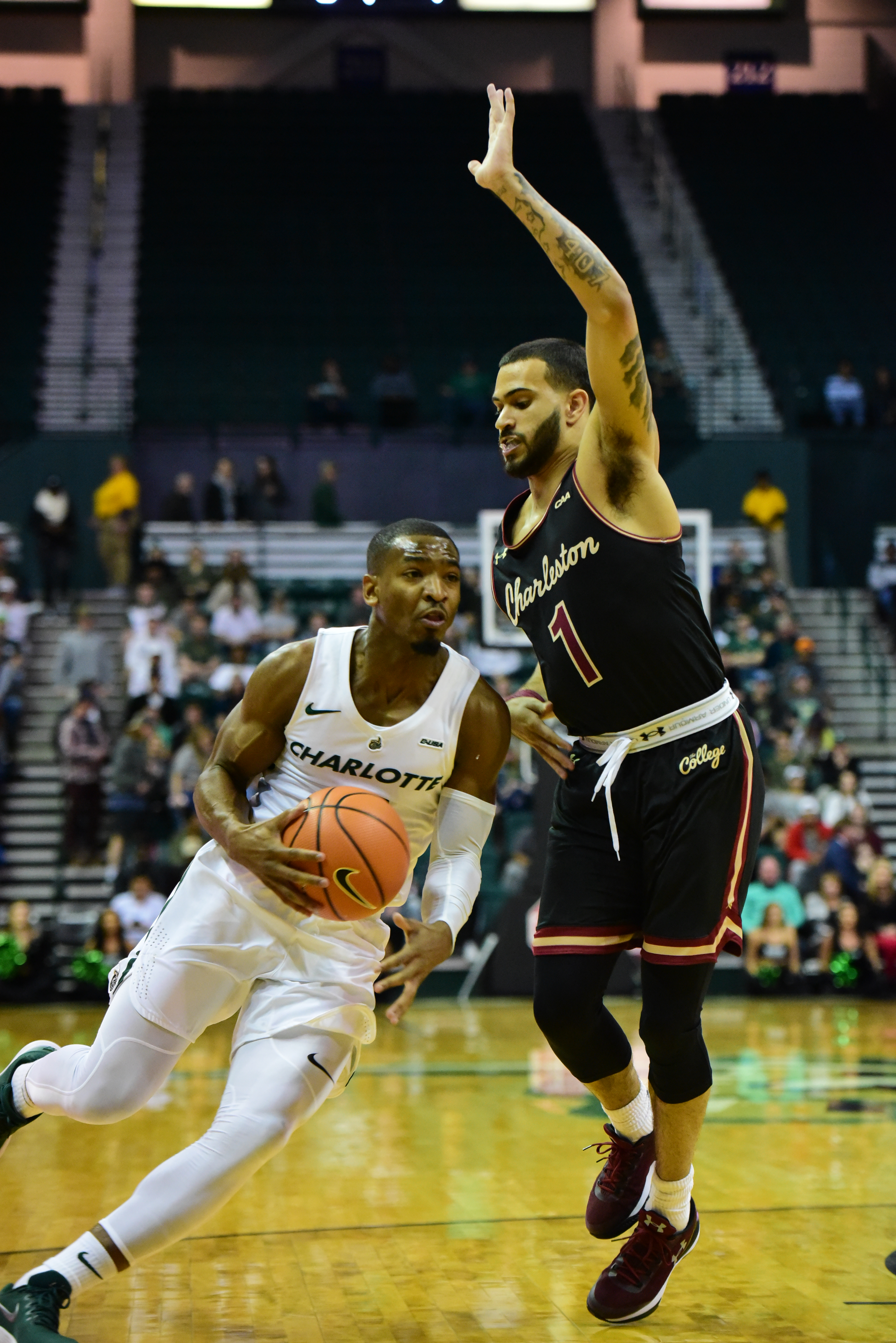 MBasketball-vs-College of Charleston, 11/18, Chris Crews, DSC_6654